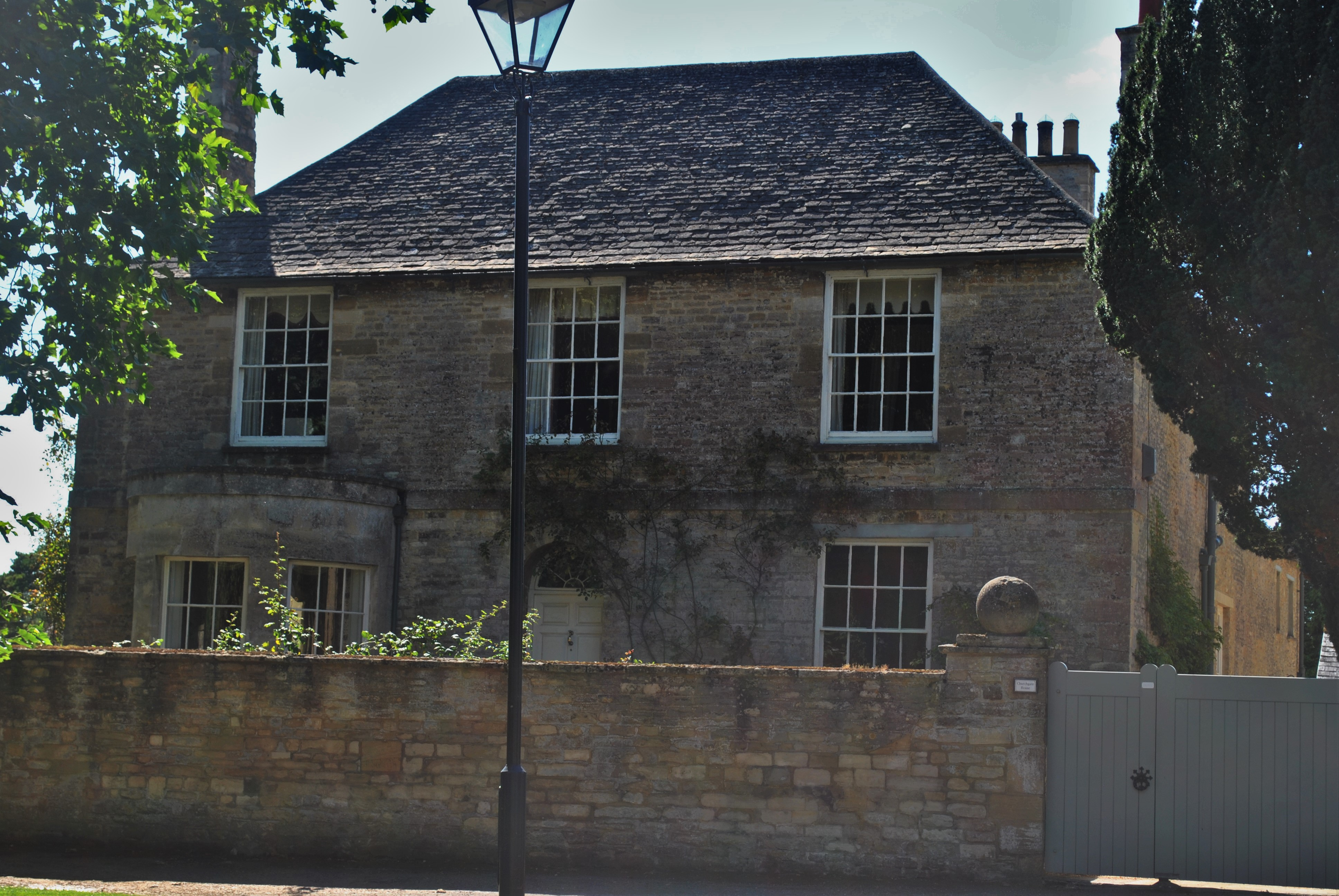 Churchgate House, Church Close, Bampton, Oxfordshire. Formerly the Rectory